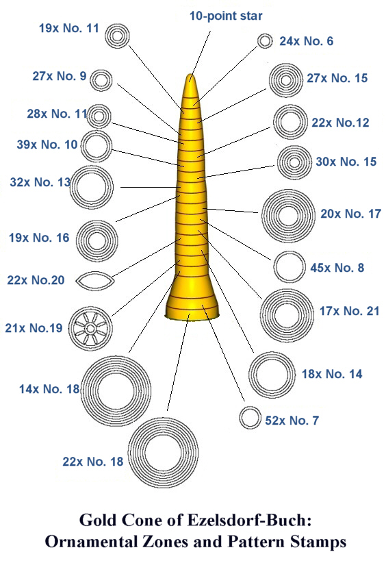 The Golden Hat of Ezelsdorf-Buch. Schematic depiction of ornamention and stamps.